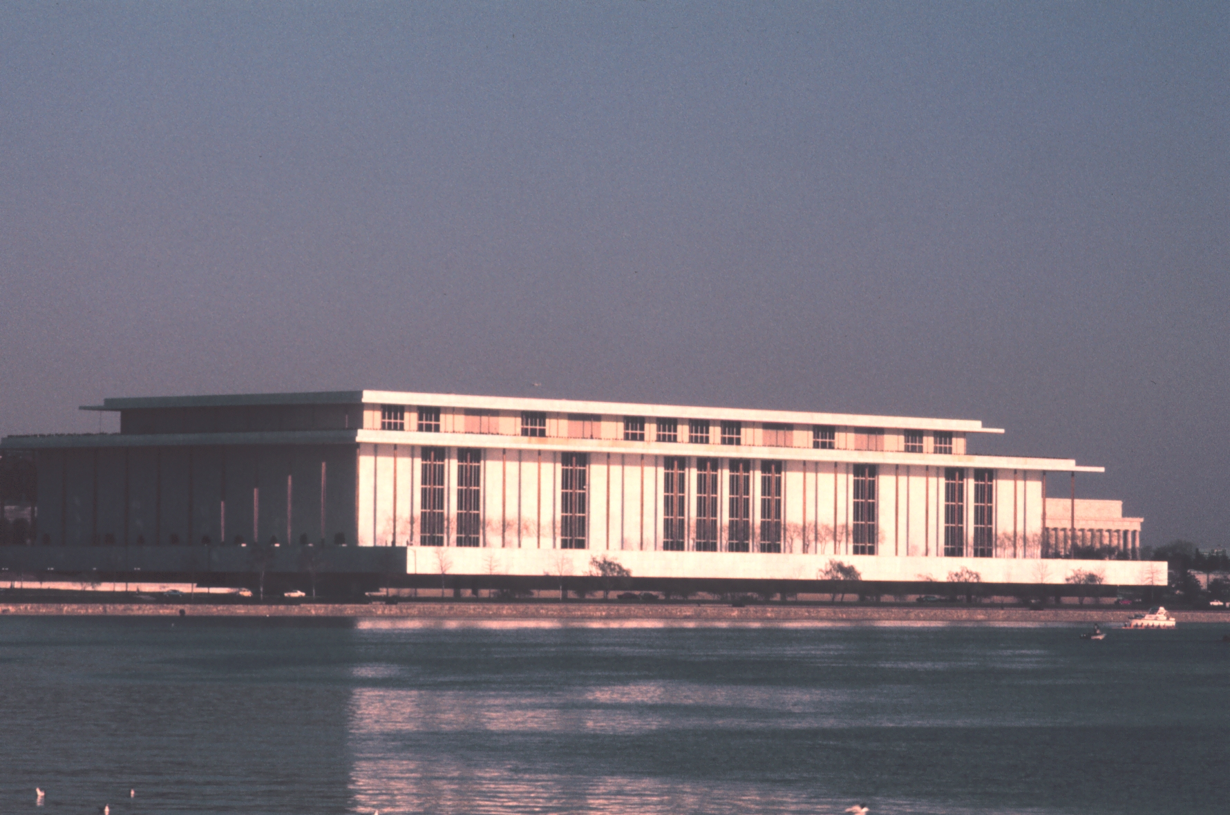 A late afternoon shot of the John F. Kennedy Center for the Performing Arts in Washington, D.C. as seen from the Potomac River.